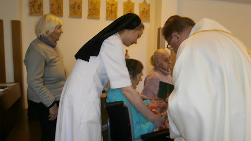 Sisters of our Lady from Mount Carmel